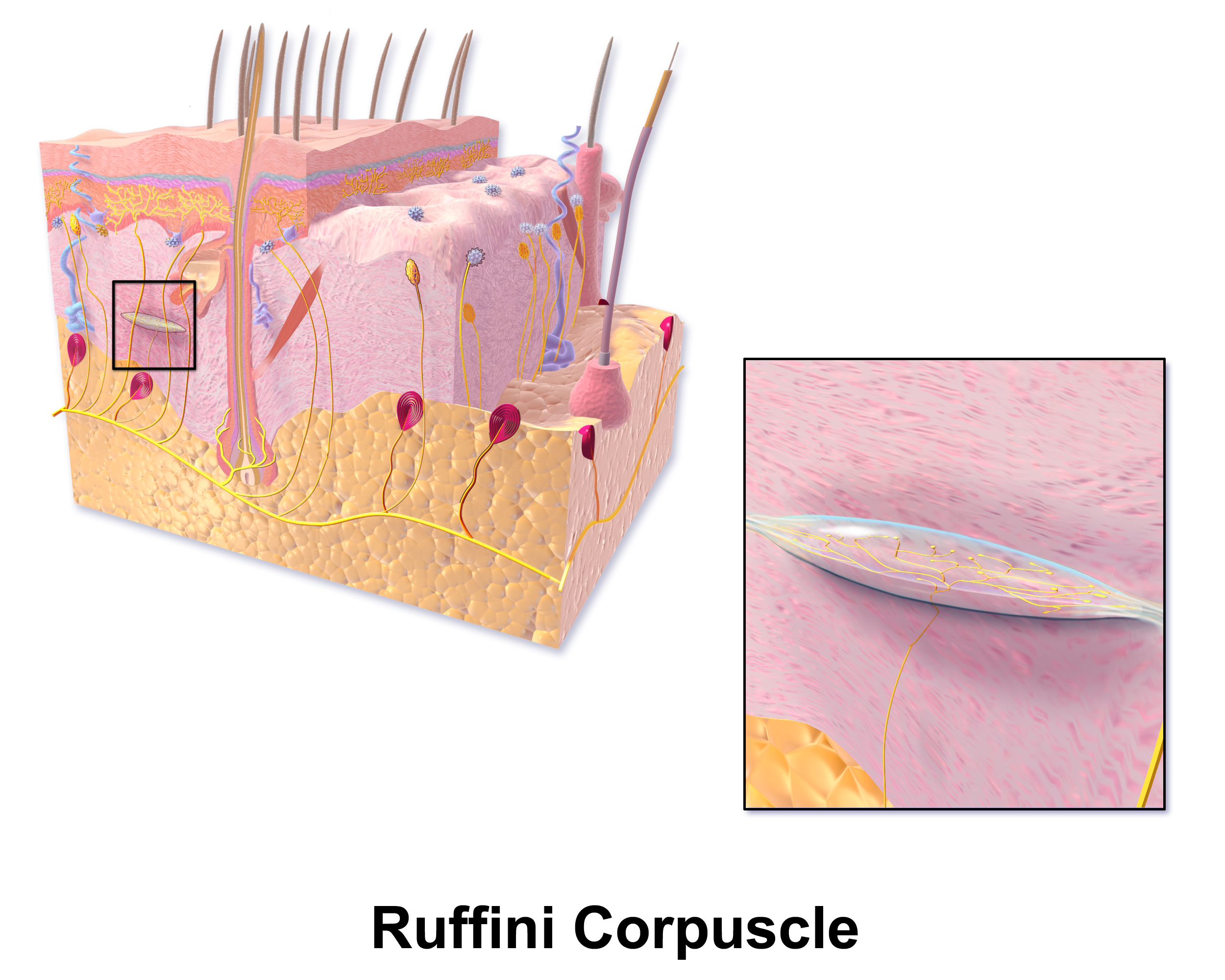 Ruffini Corpuscle. See a full animation of this medical topic.